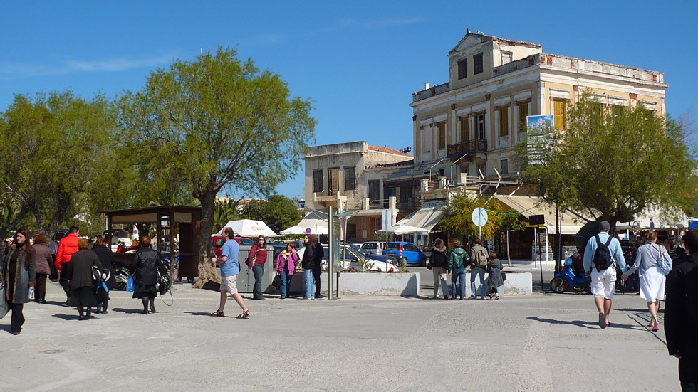 The picture depicts the main port of Aegina.